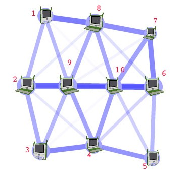 OLPC: XO classroom network